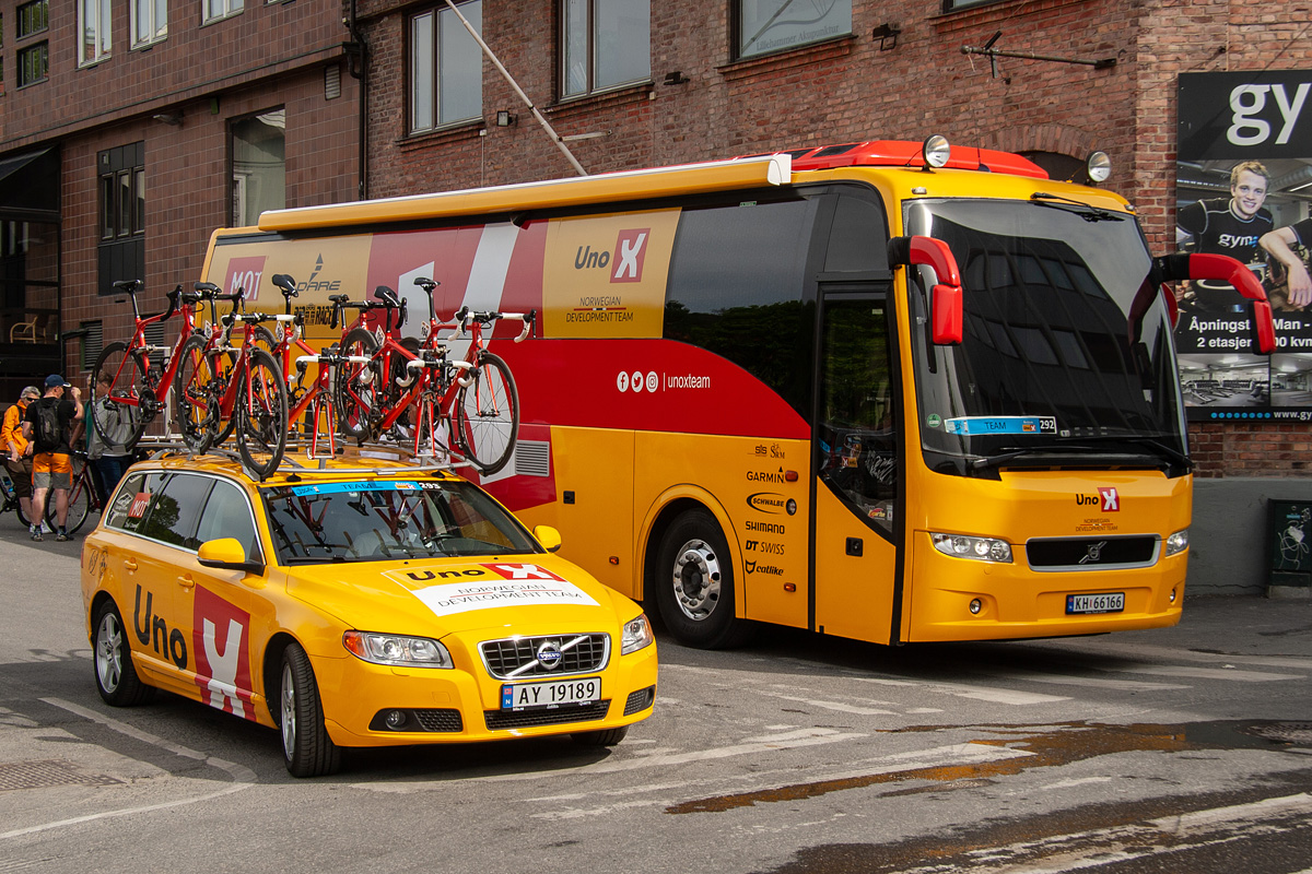 Uno-X Norwegian Development Team vehicles at fifth stage of the 2018 Tour of Norway in Lillehammer. AY 19189: 2012 Volvo V70 KH 66166: 2009 Volvo 9700HD NG B12B 4x2, converted from an ordinary tourist coach in 2017